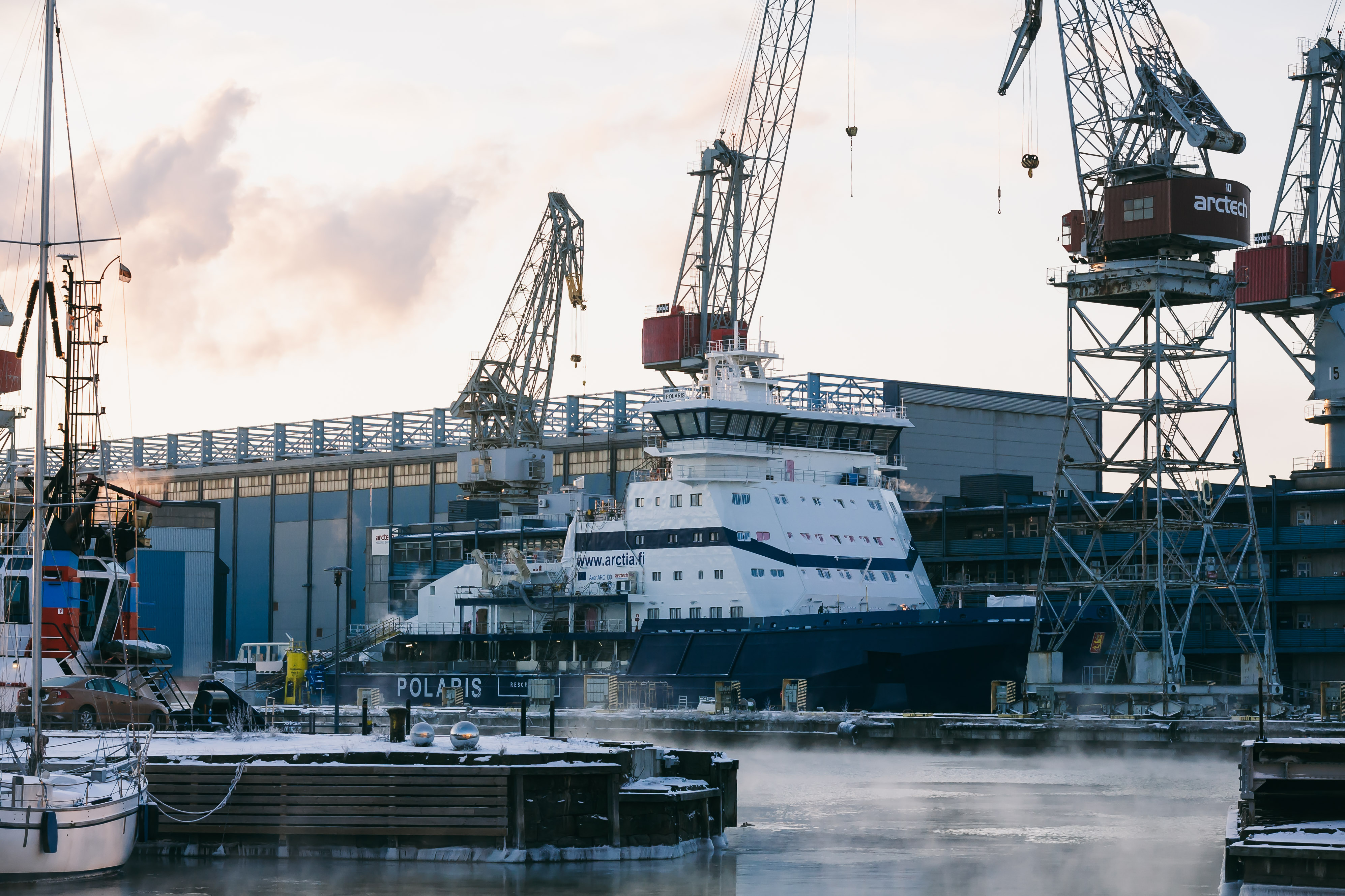 The icebreaker Polaris (IMO: 9734161) in the Arctech Helsinki Shipyard days before its completion.